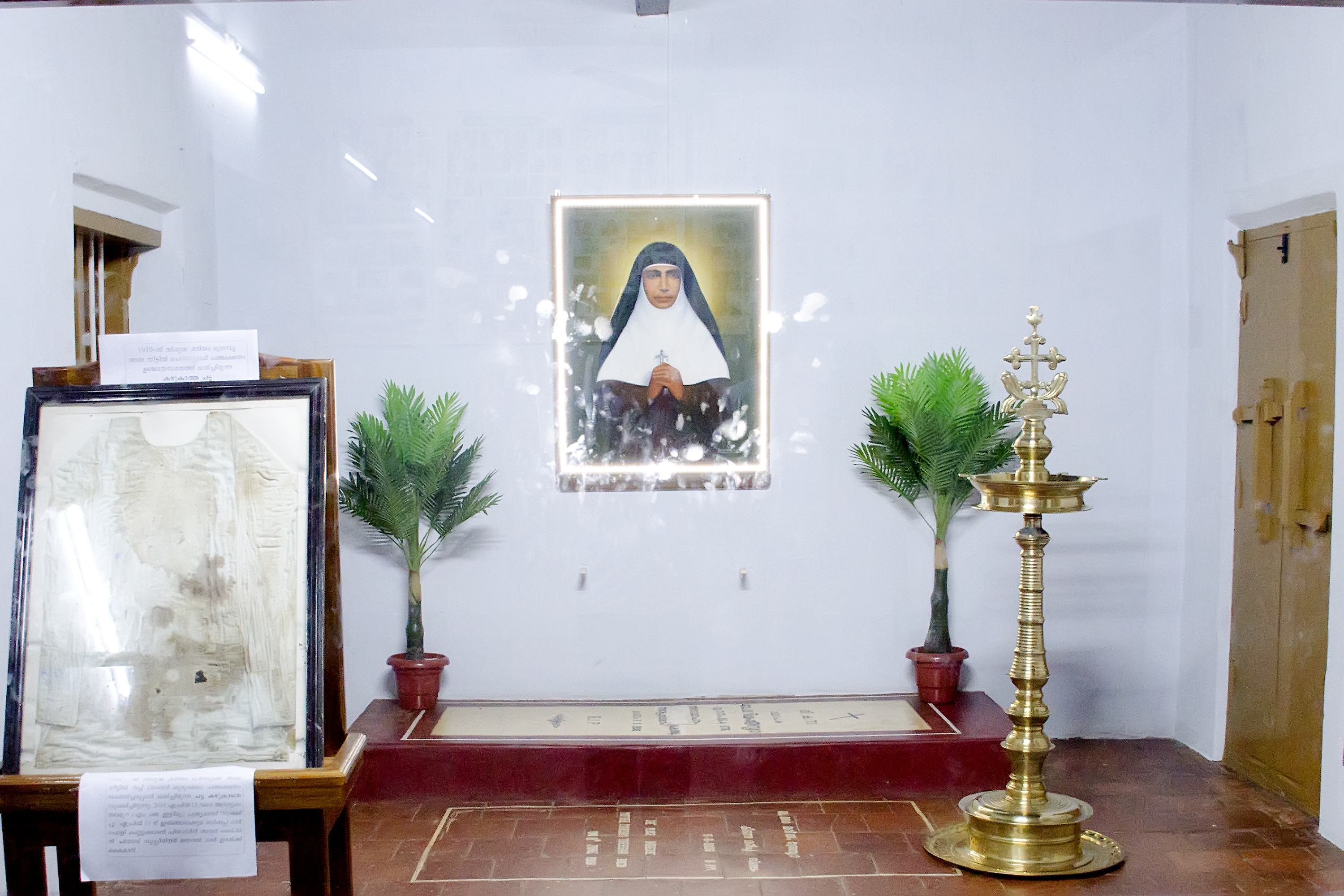 The Room where St. Mariam Thresia breathed her last